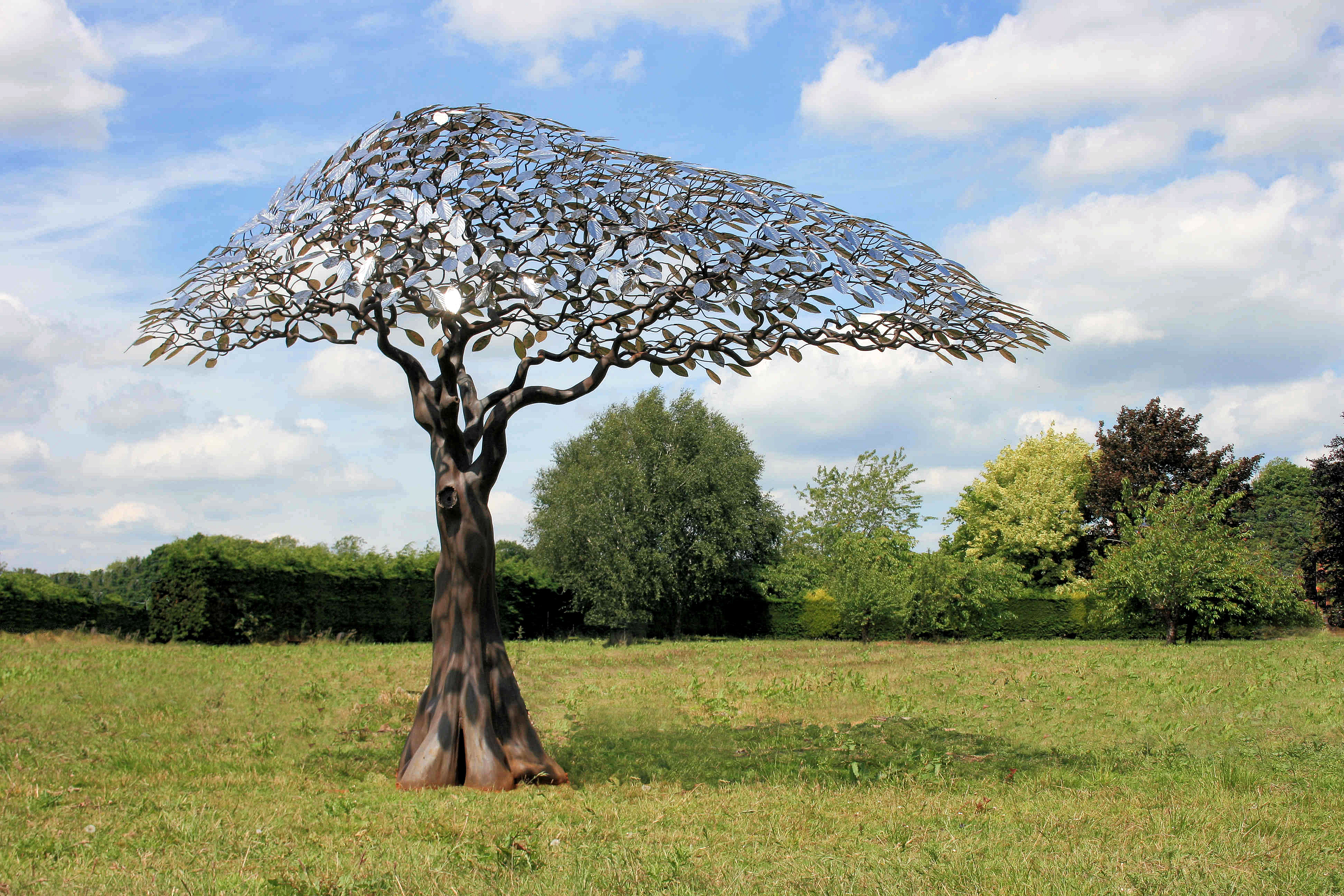 The monumental bronze Arbour Metallum tree sculpture.